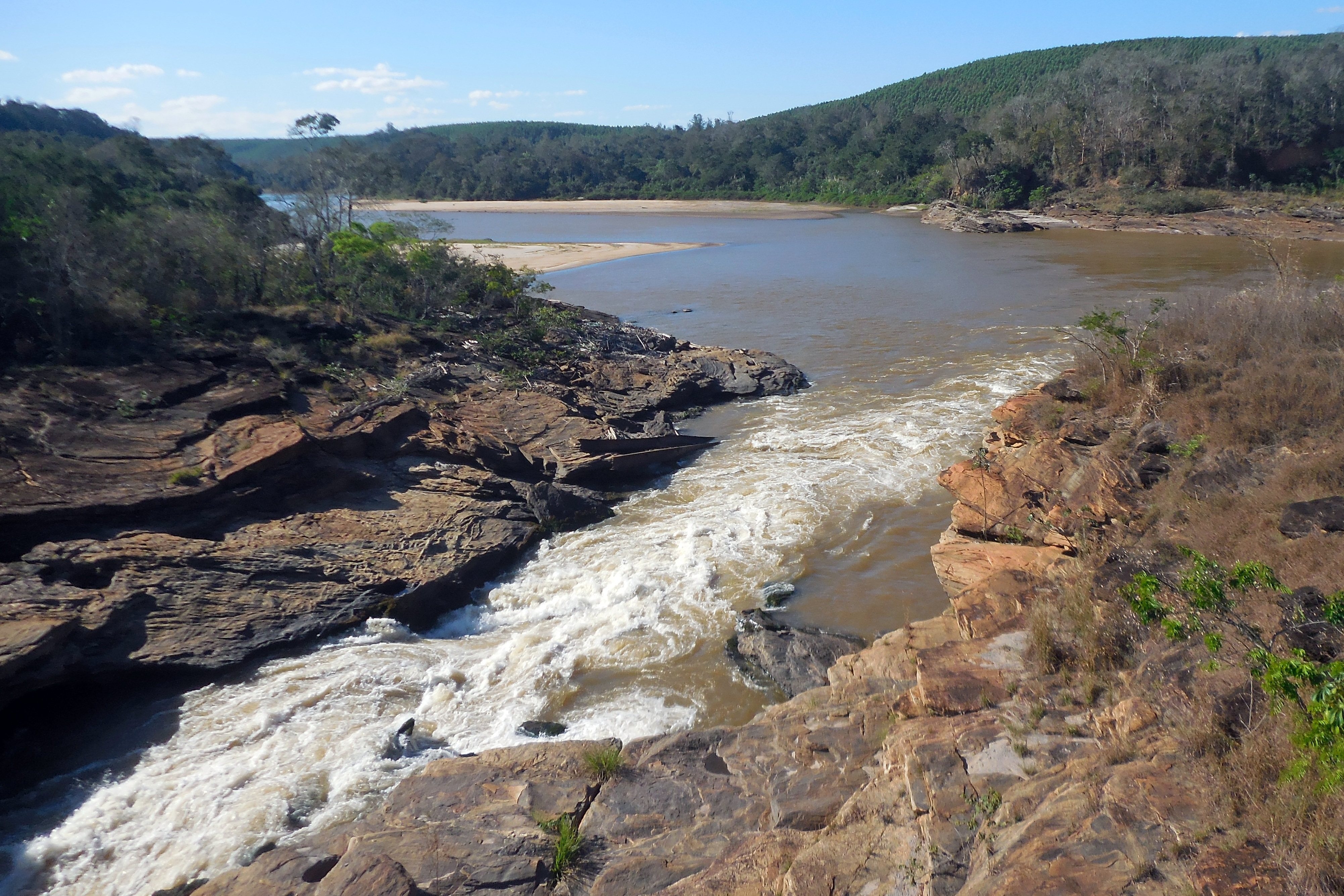 Doce River seen from of the Ponte Queimada, between Marliéria and Pingo-d'Água, Minas Gerais, Brazil.